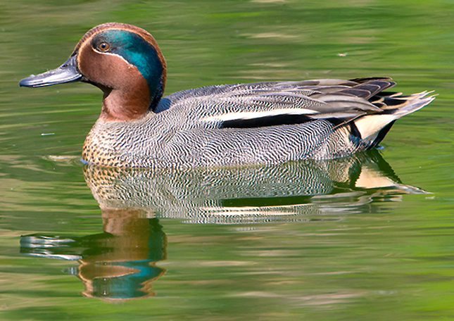 Common Teal (Anas crecca) is one of the smallest but prettiest common winter migrants to India. This is a male photographed in a small private pond protected by the owner Mithoo Lal near Village Roza , District Shajahanpur, UP in March. 2013